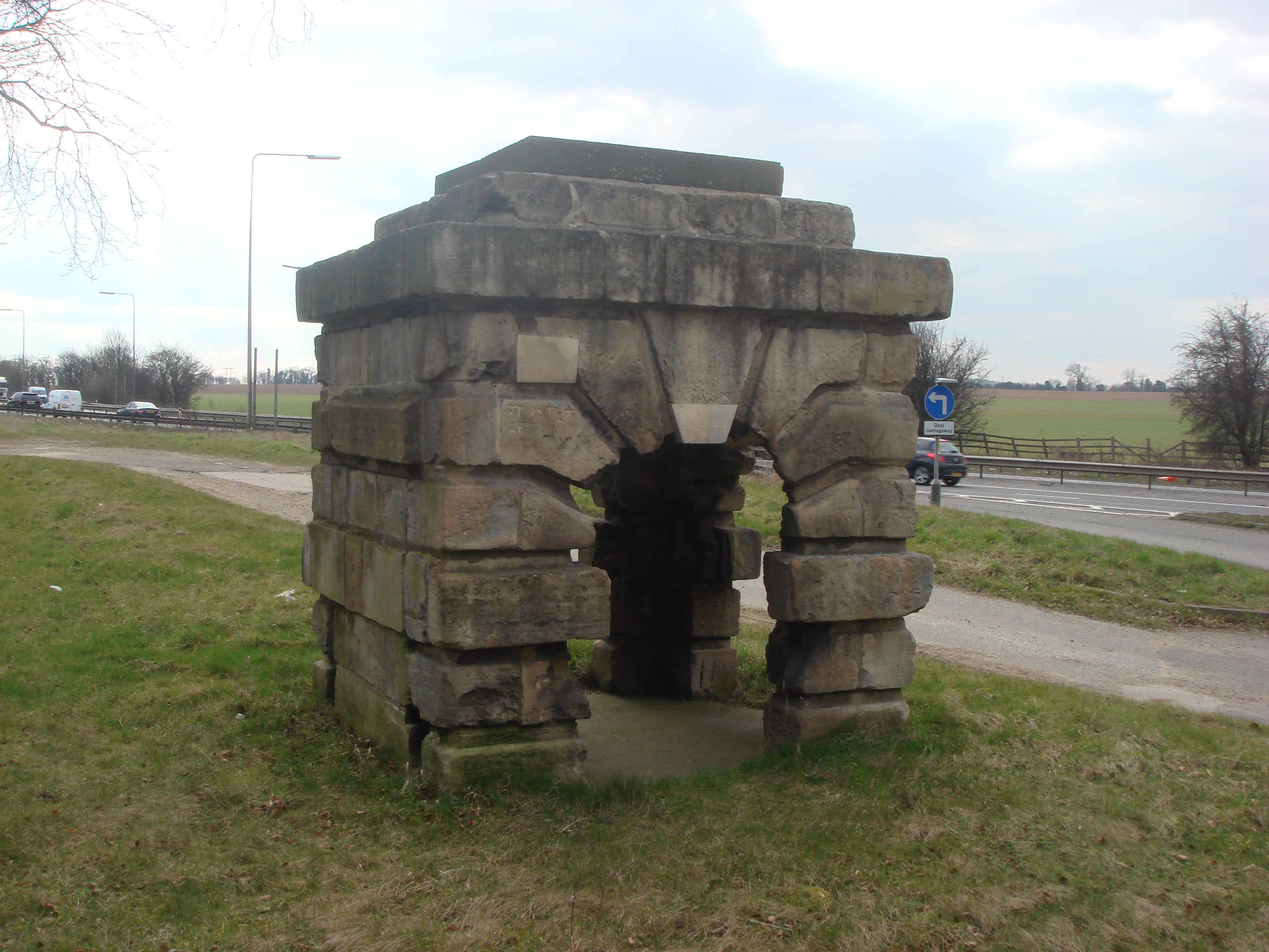 Picture of Robin Hoods Well. The off colour plate at the top left of the well used to contain a plaque explaining that the well has been moved from its original location when the dual carraigeway (visible in the background) was built.